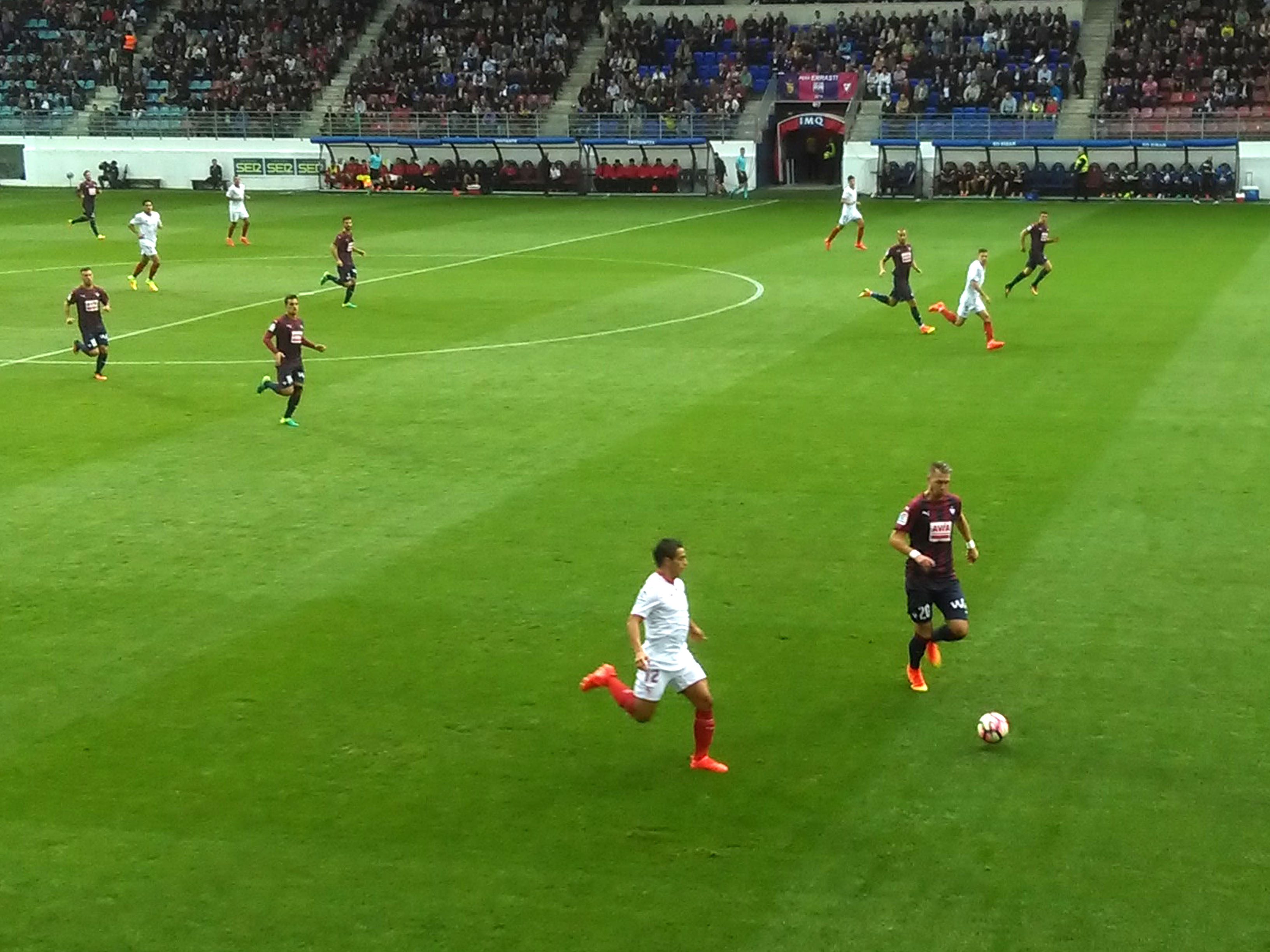 Eibar 1-1 Sevilla